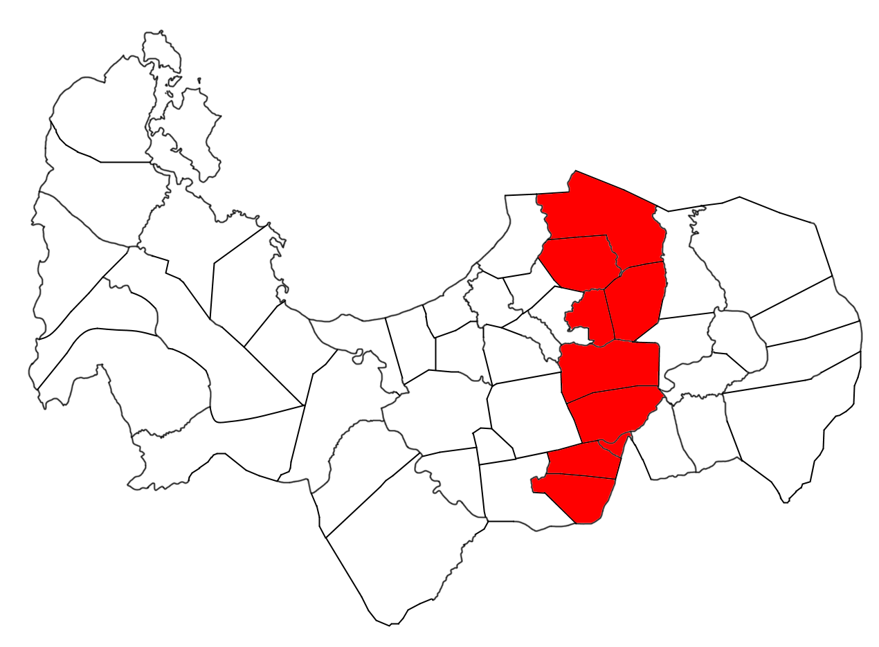 a 5d district map